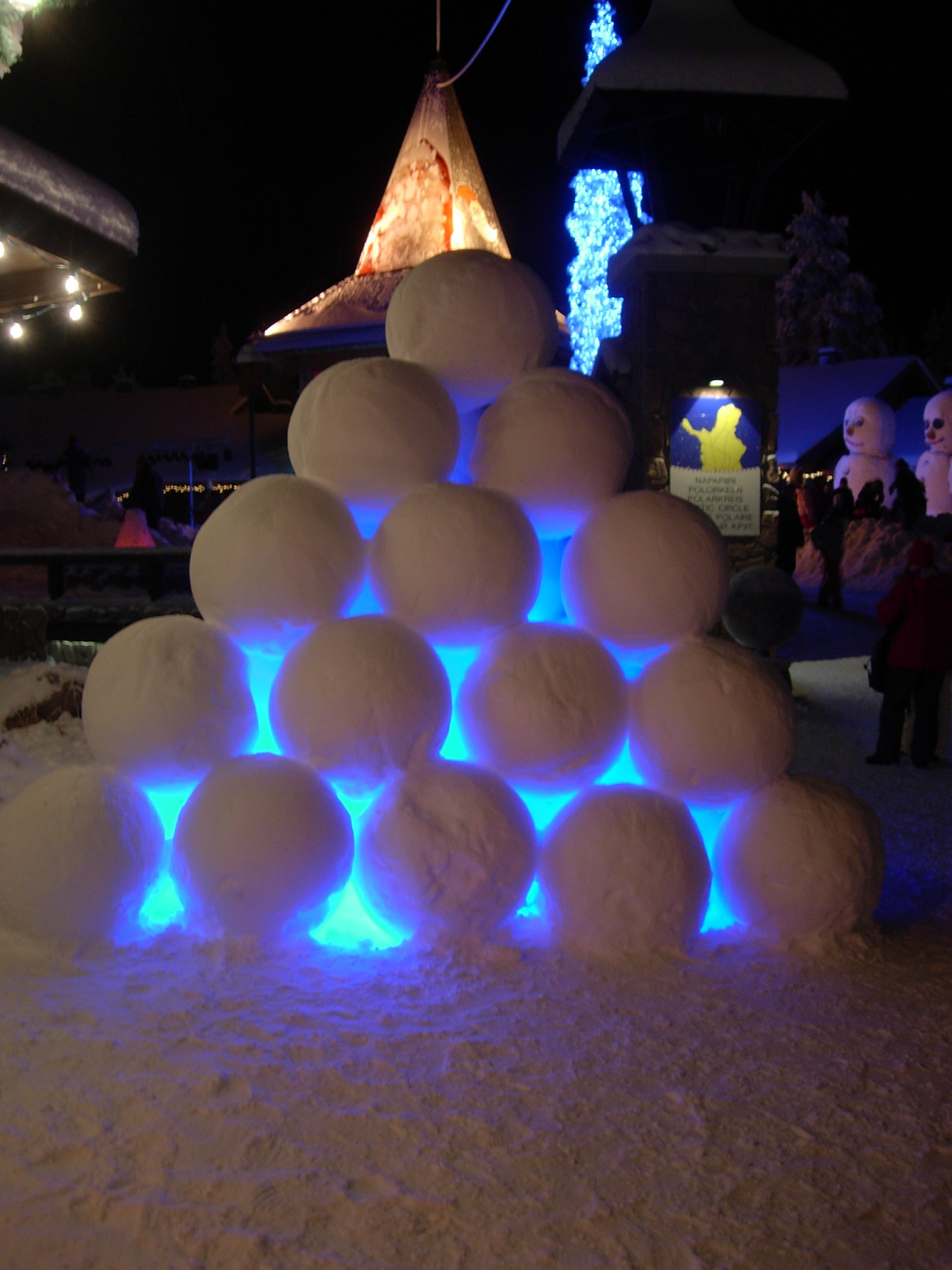 Snowball pyramid at Santa Claus' Village